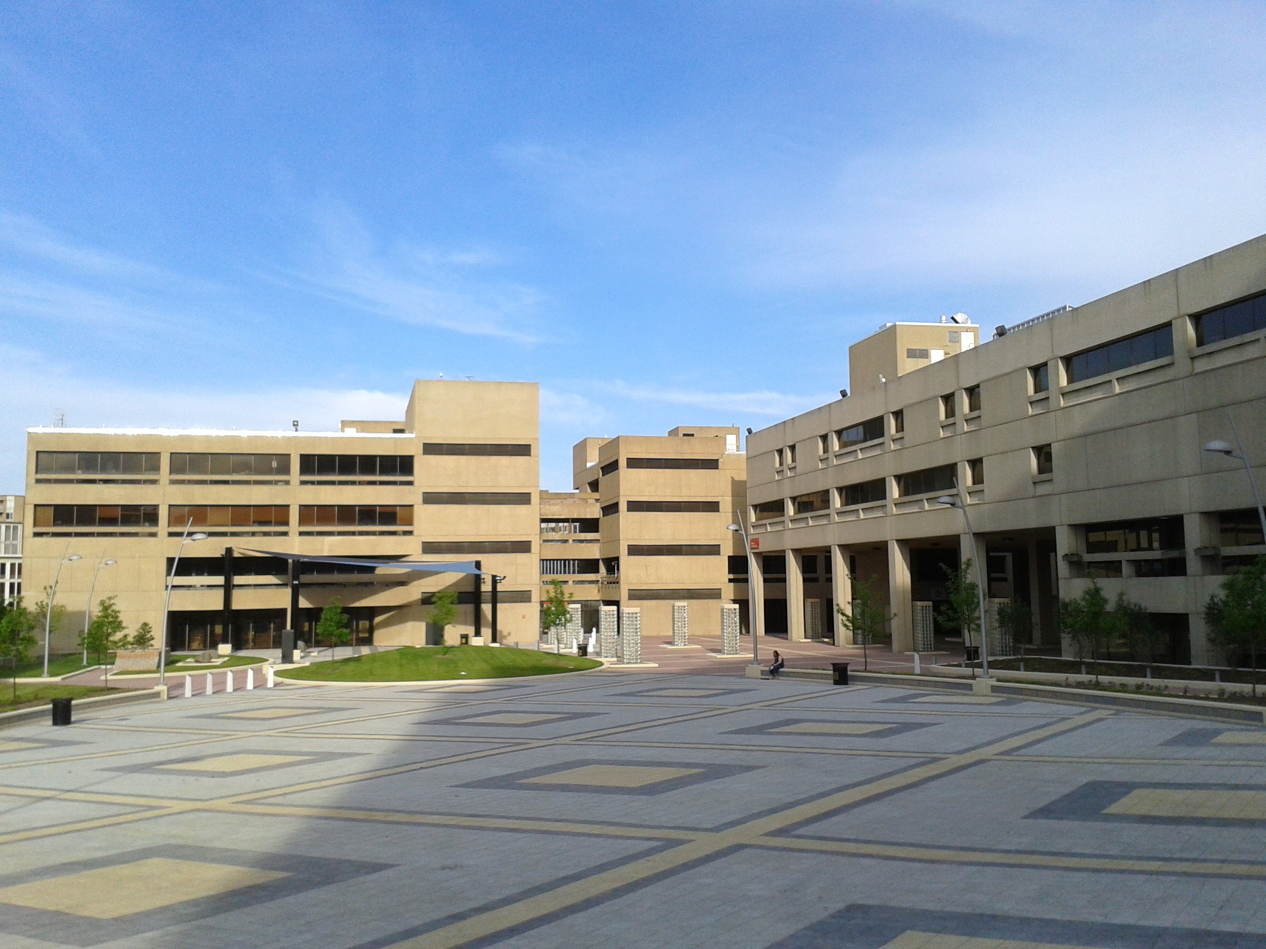 Main quadrangle (Dennard Plaza) of the University of the District of Columbia.